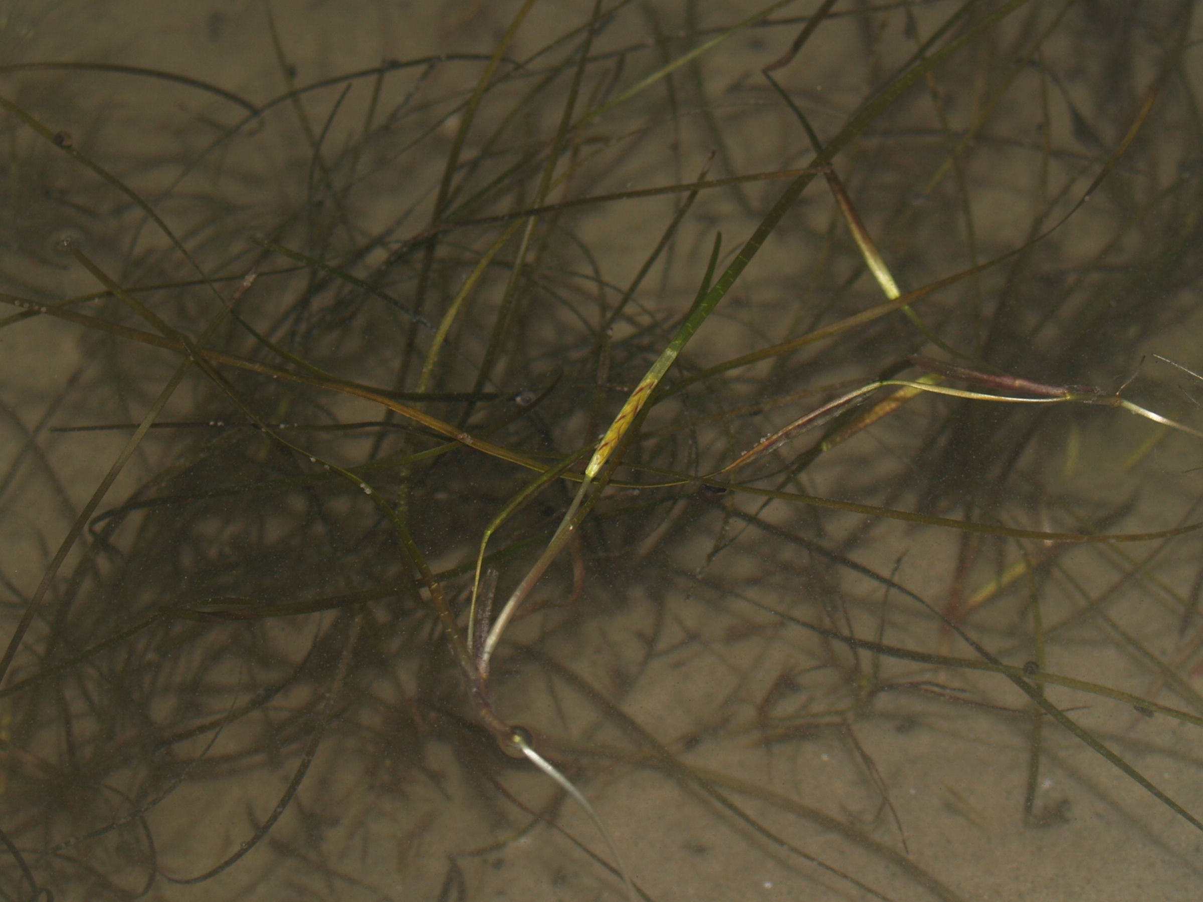 Yu Ito (2012) Aquatic plant surveys in northern Europe. Bulletin of Water Plant Society, Japan 98: 45-50.